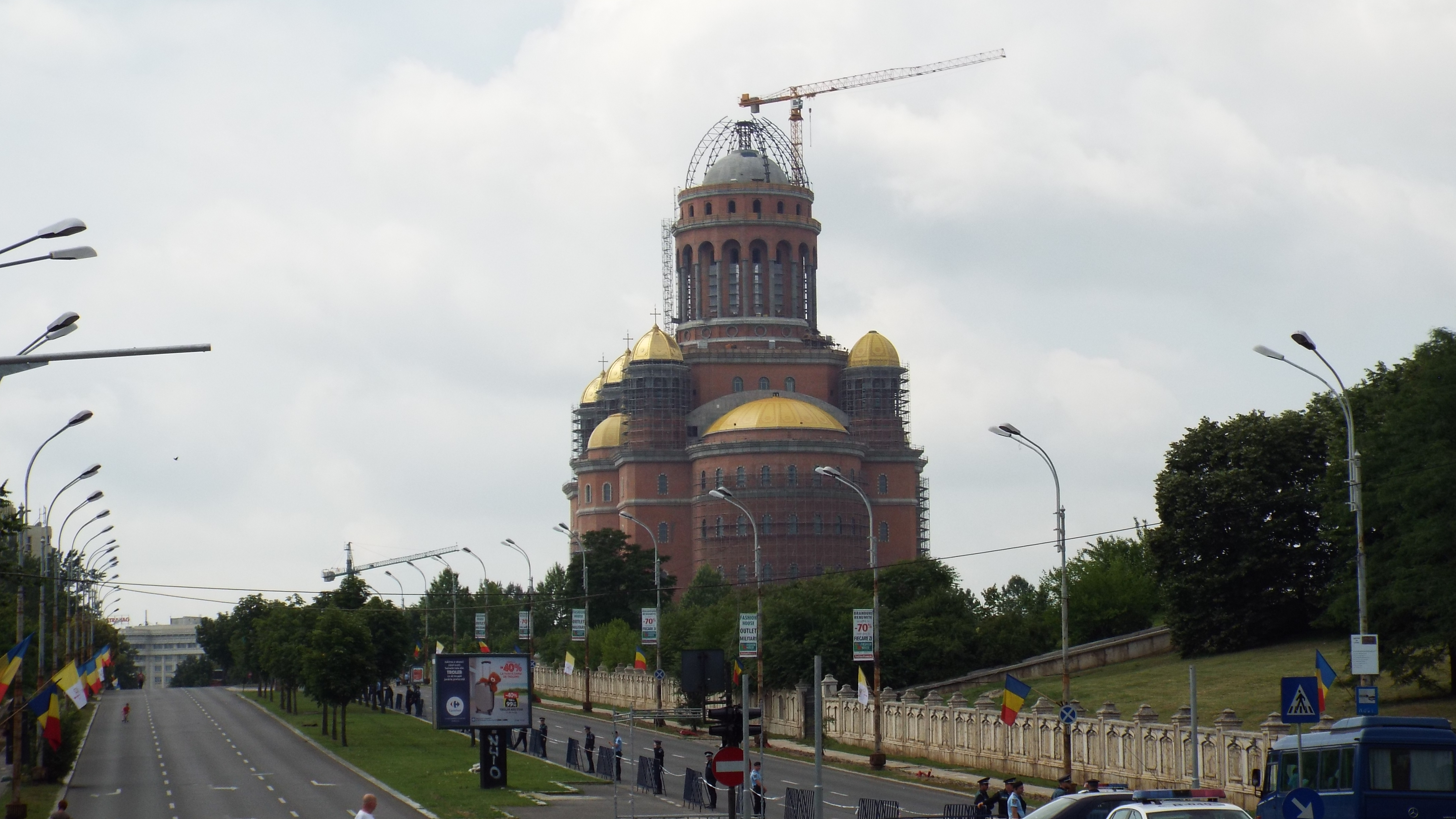 People's Salvation Cathedral - Bucharest (2019 May)